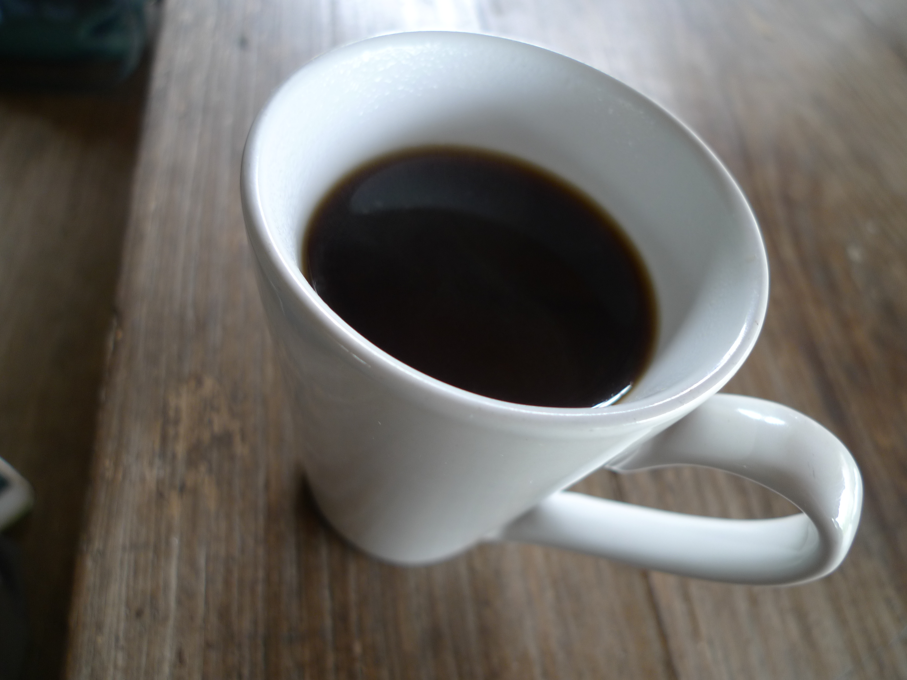 Moon Garden (Tagaytay) Kapeng Barako